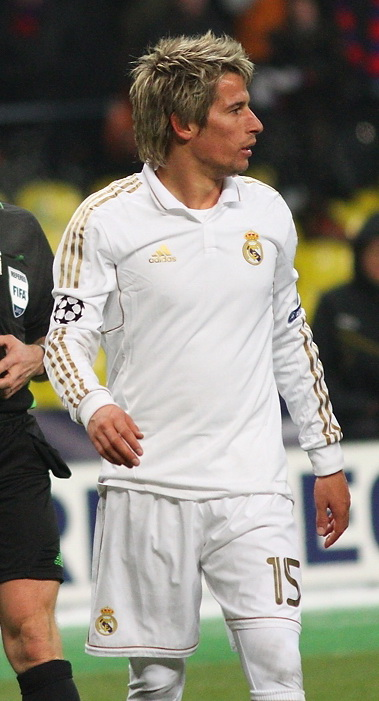 Fábio Coentrão